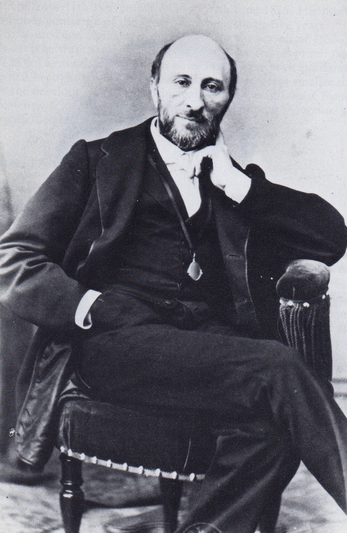 Photo by B. Braquehais of Arthur Saint-Leon. Paris, 1865. Photo comes from my collection and was scanned by me, Mrlopez2681 15:01, 1 December 2006 (UTC)